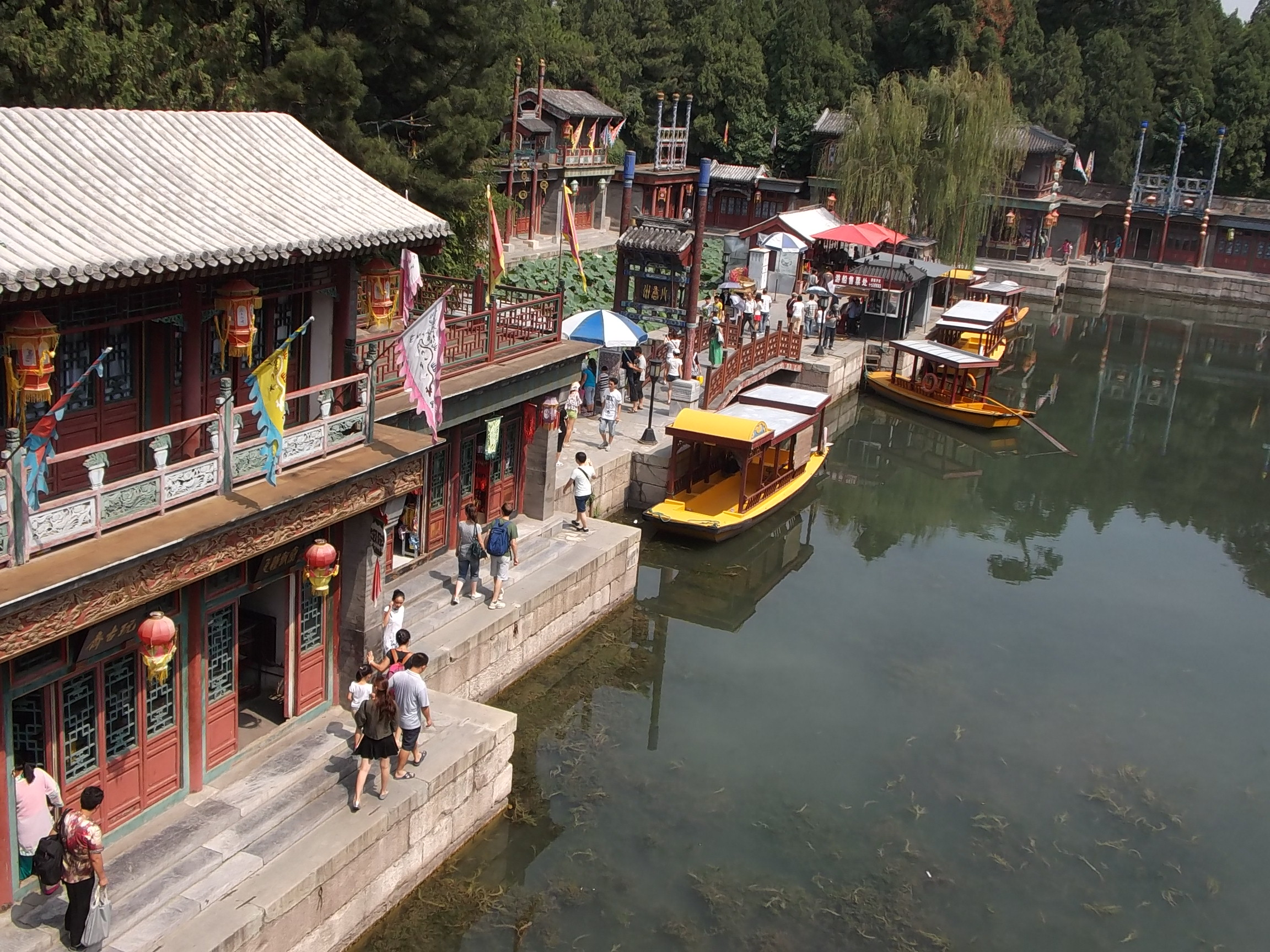 Boats and Suzhou Jie at the Summer Palace - Beijing, China, 27.8.2014